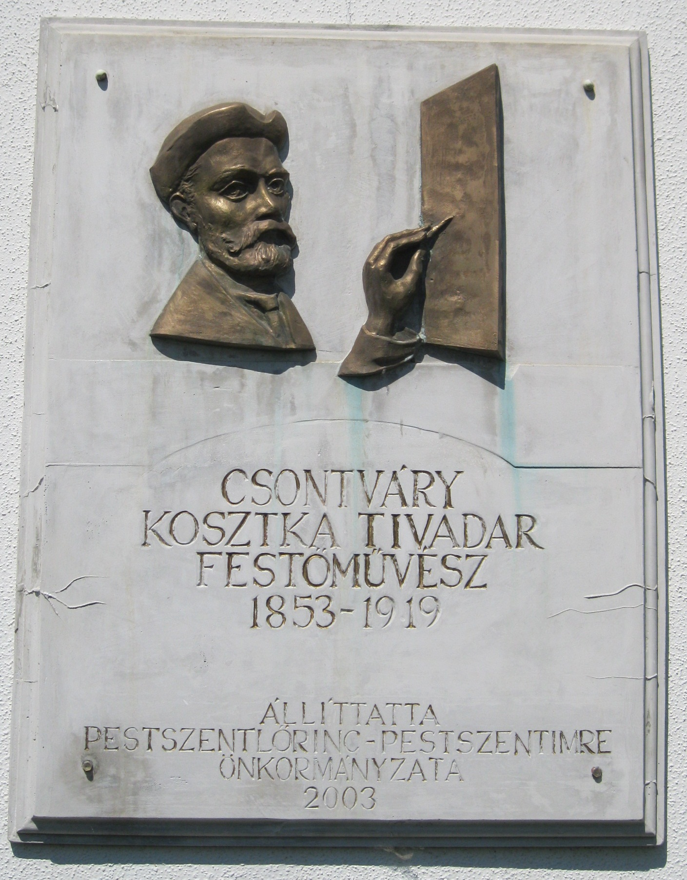 Commemorative plaque of Tivadar Csontváry Kosztka in Budapest District XVIII, Kondor Béla Alley No 10. Creator: Előd Kocsis. Erected in 2003.